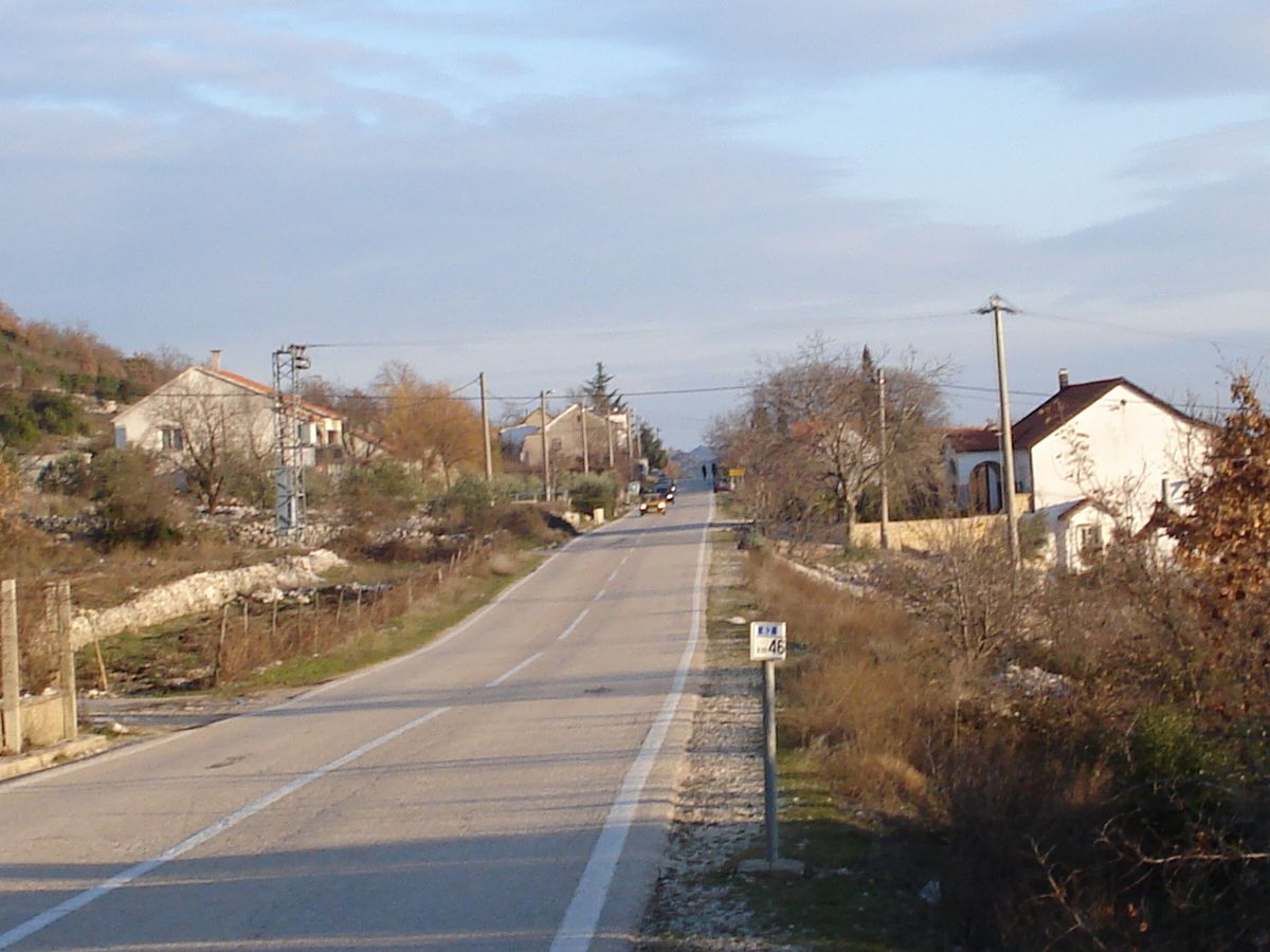 Ravča, near Vrgorac.